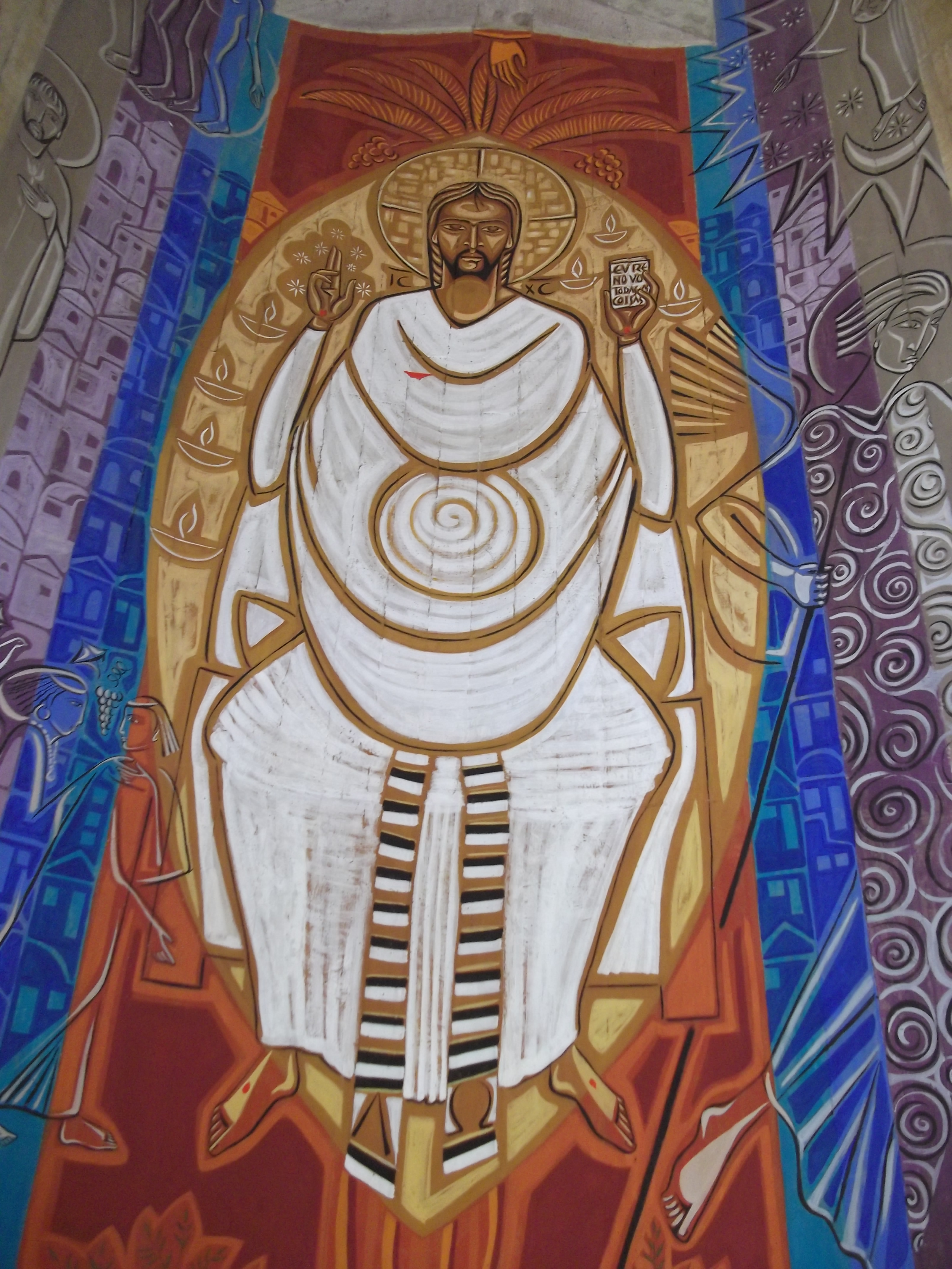 Virgin's Monastery (benedictine nuns), Petrópolis, Rio de Janeiro State, Brazil